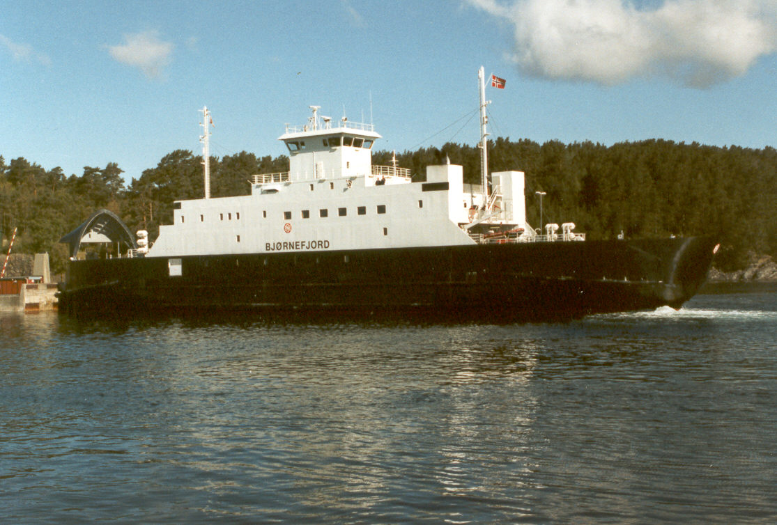 MF «Bjørnefjord» (built 1986) at Skjersholmane in the late 1990s